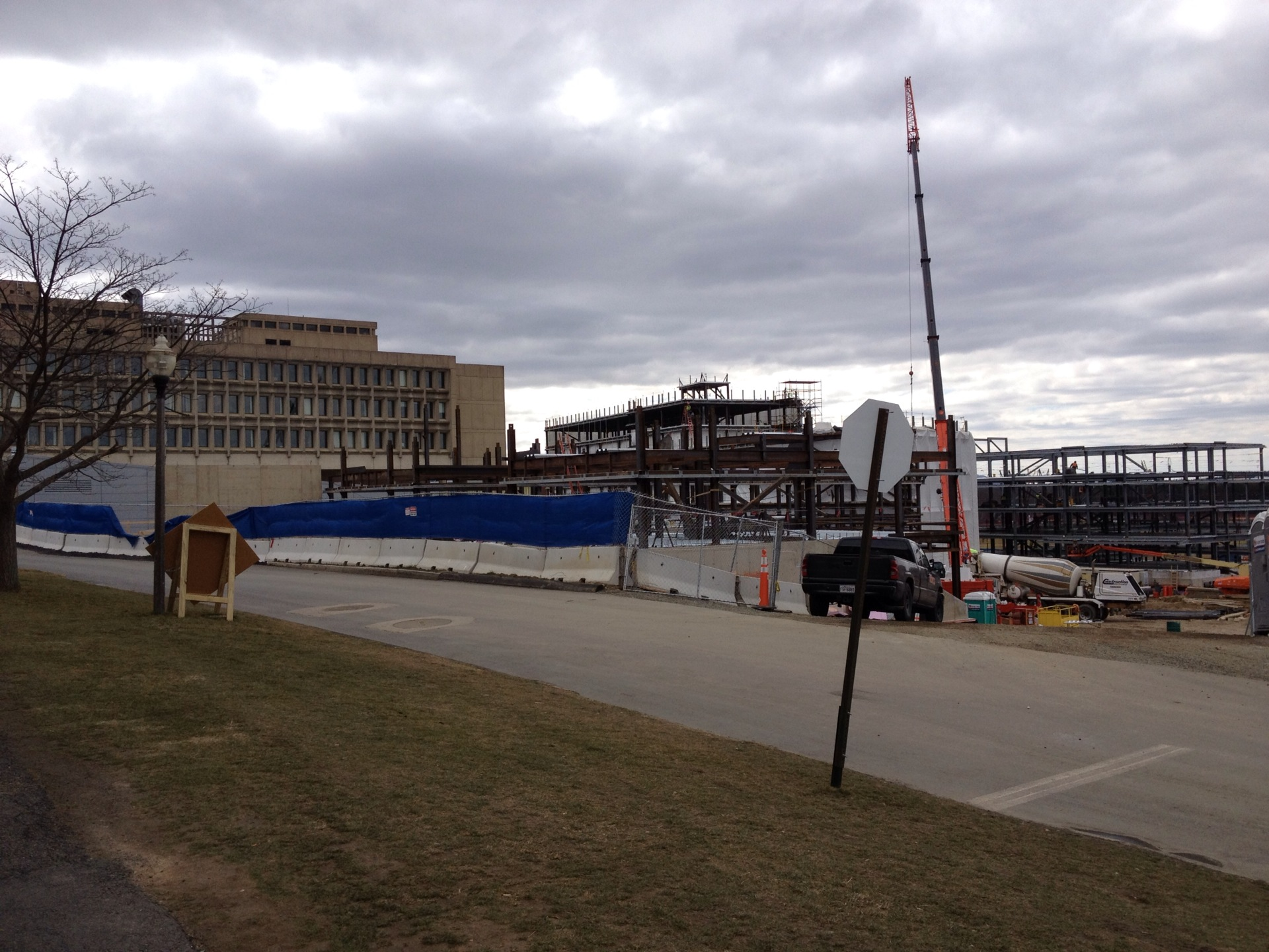 Construction of the Commonwealth Honors College.